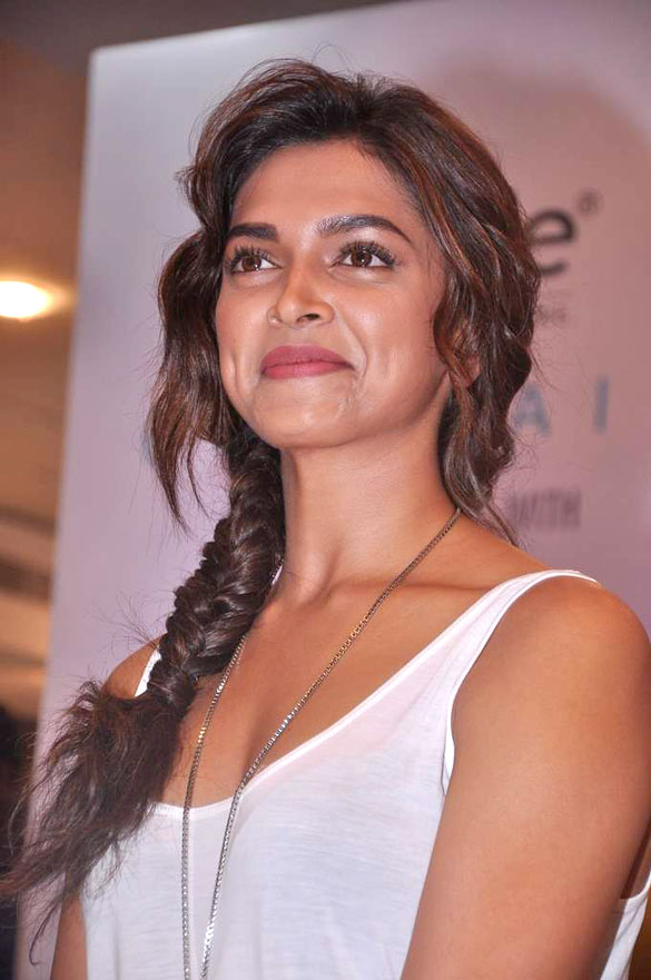 Deepika unveils Melange's lifestyle ethinic look for 'Cocktail'